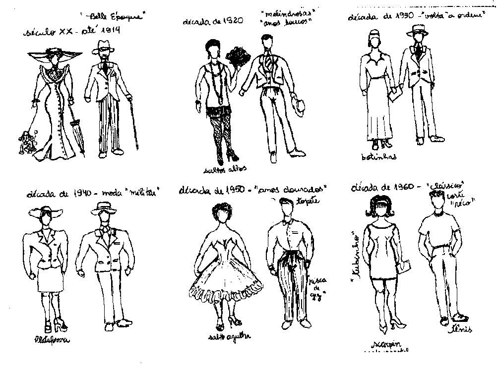 Diagram of the evolution of women's and men's clothing styles from the early 20th century to the late 1960s